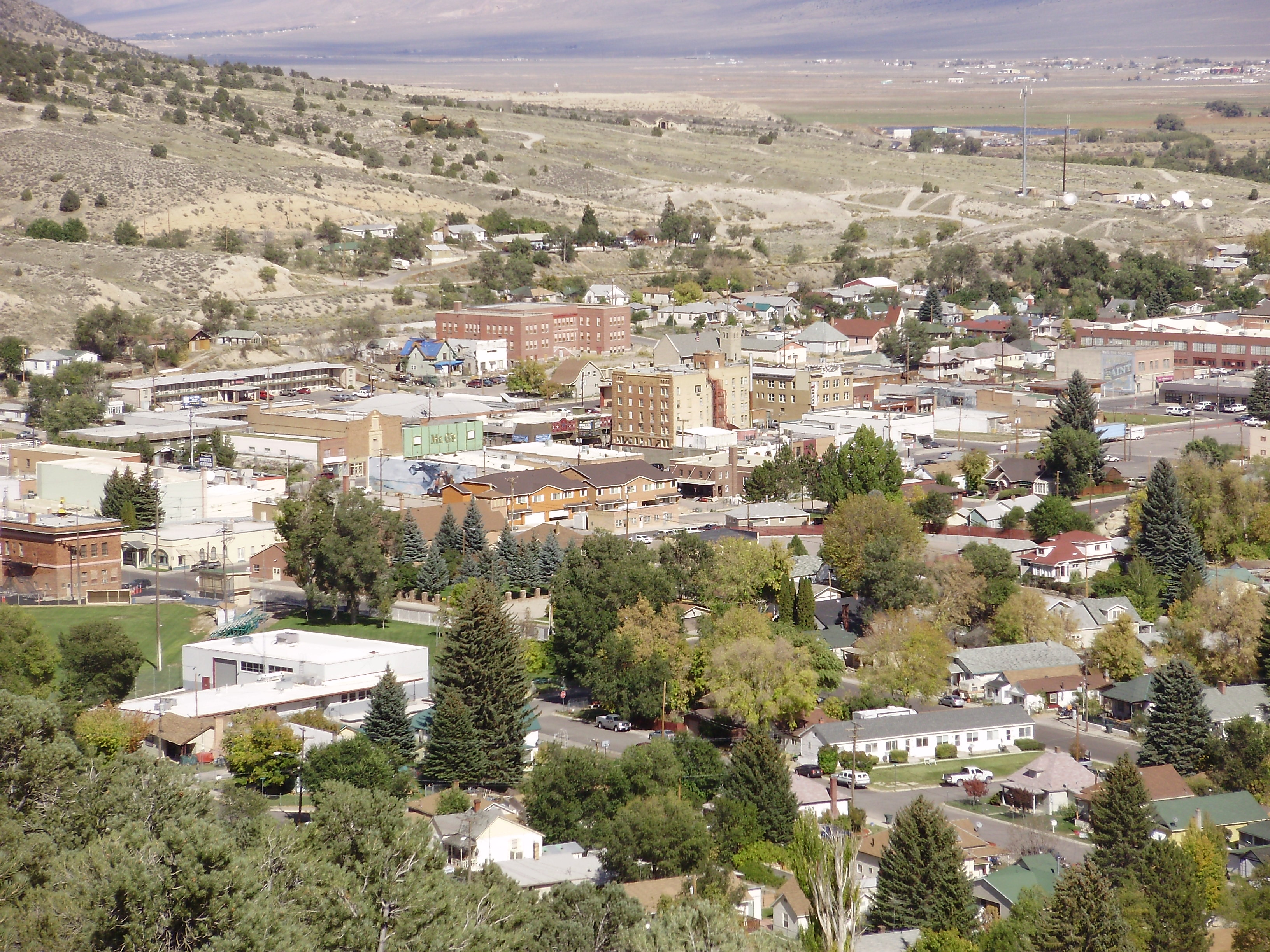 View of downtown Ely, Nevada from the lower slopes of Ward Mountain.